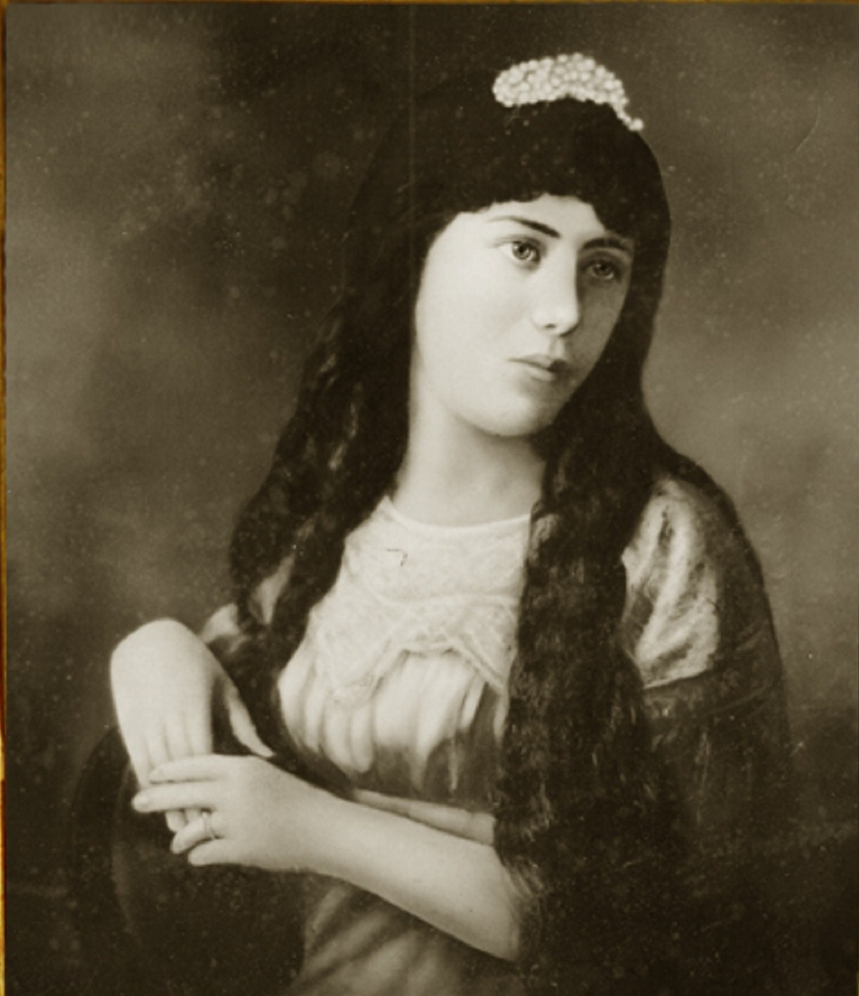 Virginia Kahoa Kaahumanu Kaihikapumahana Ninito Wilcox (1895–1954) was related to the royal family of the Kingdom of Hawaii.